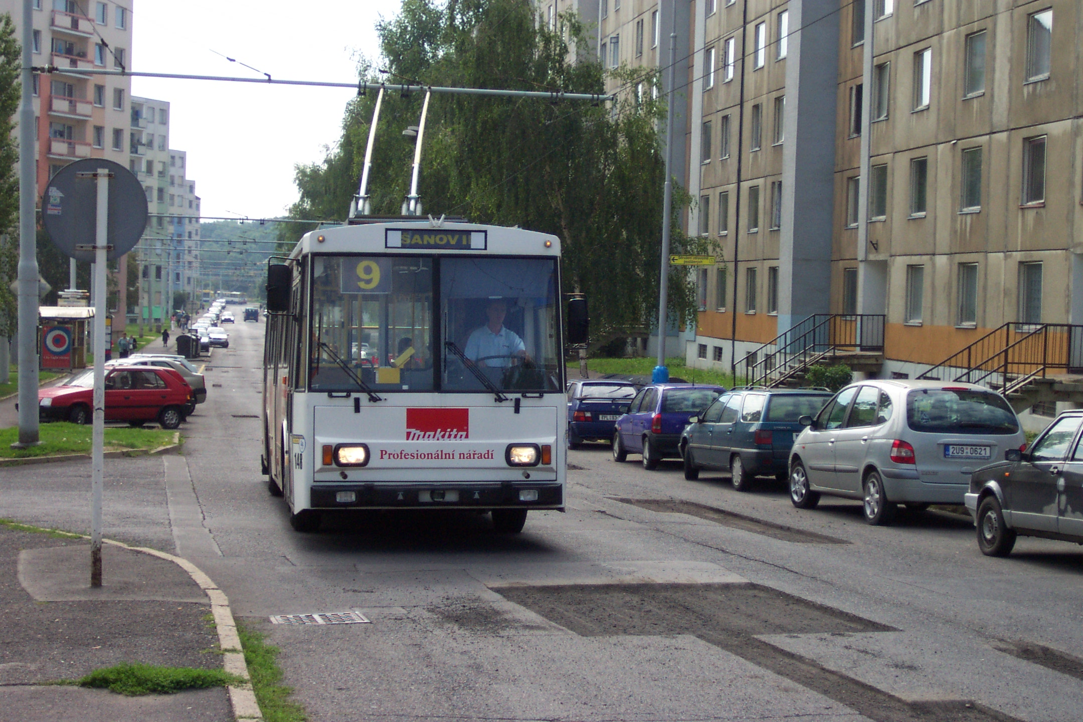 Teplice, Czech republic, trolleybus type 14Tr - Teplice, trolejbus typu Škoda 14Tr